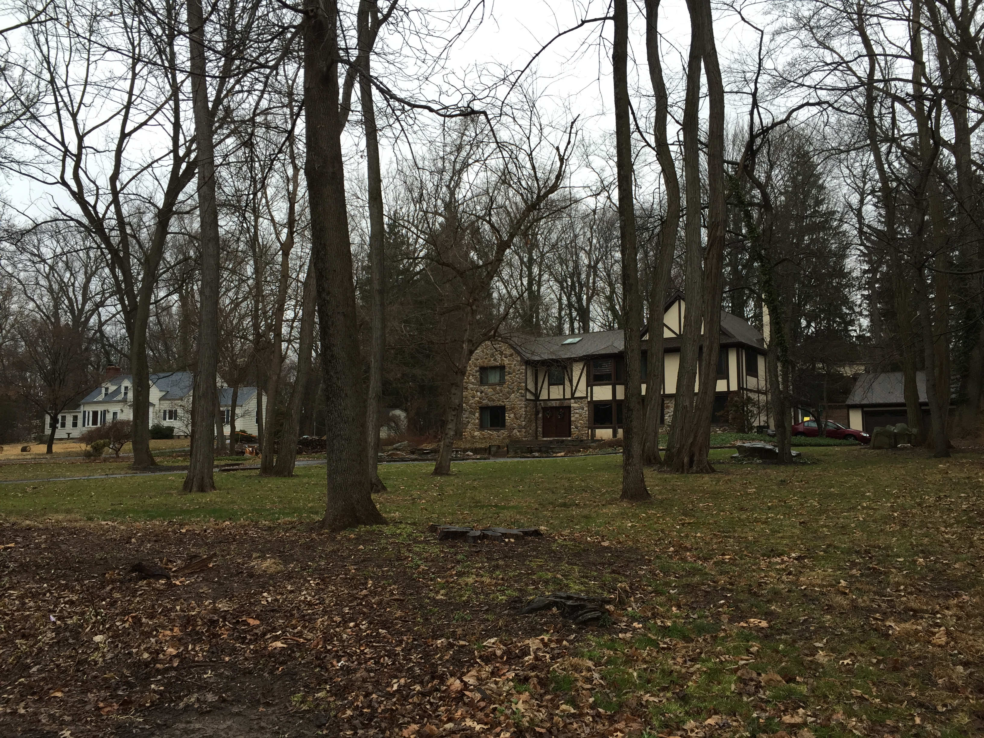 Houses along River Road (New Jersey Route 175) in the Scudders Falls section of Ewing, New Jersey